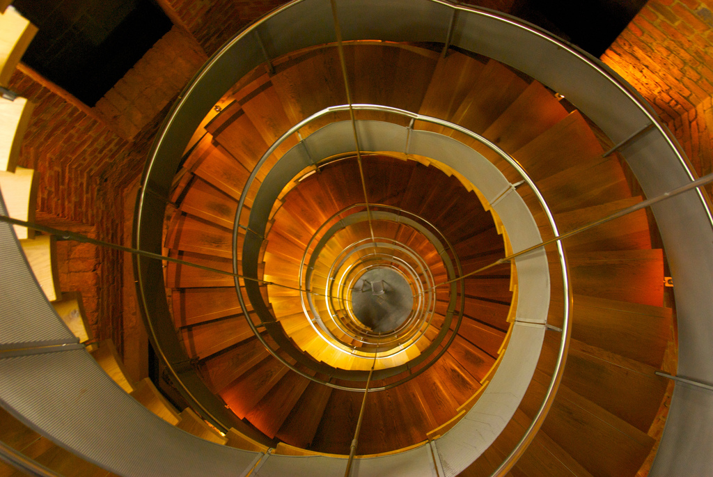 The spiral staircase at the Lighthouse in Mitchell Lane, Glasgow